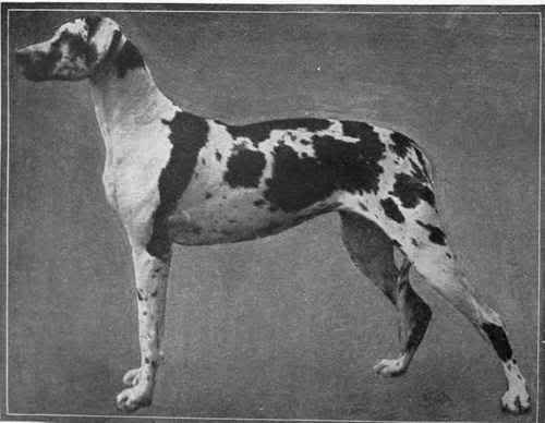 Harlequin Great Dane in 1910.